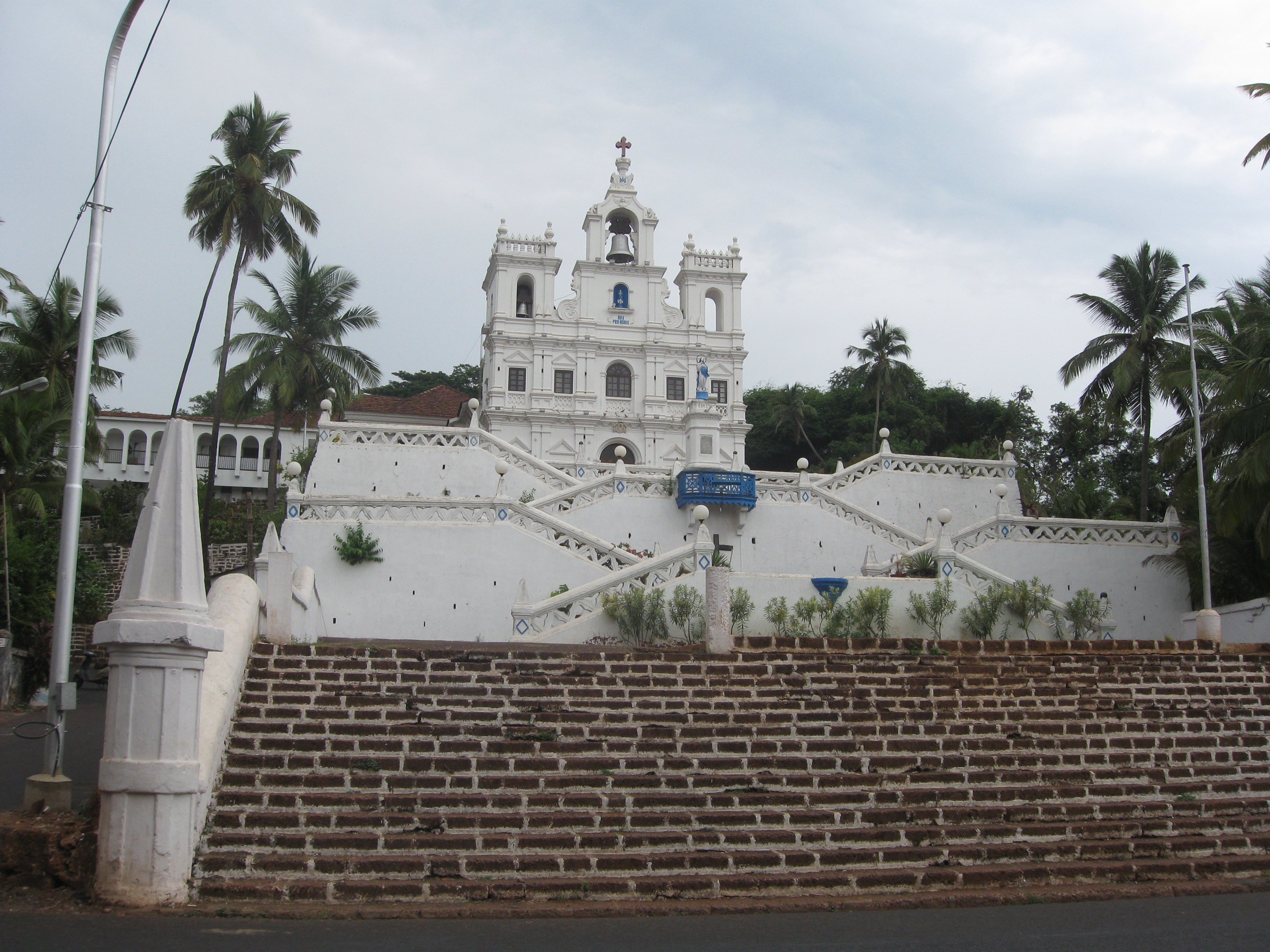 Our Lady of the Immaculate Conception Church, Goa, India